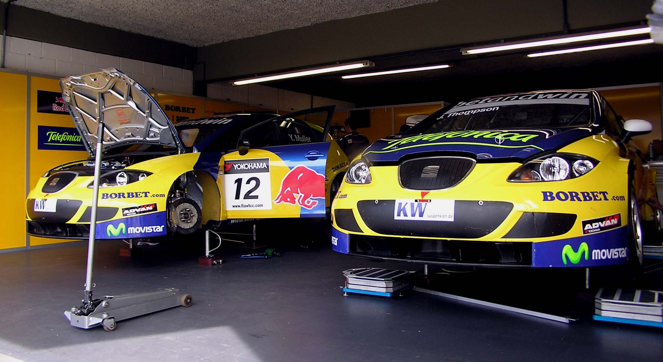 World Touring Car Championship 2006: SEAT Sport pit - SEAT León